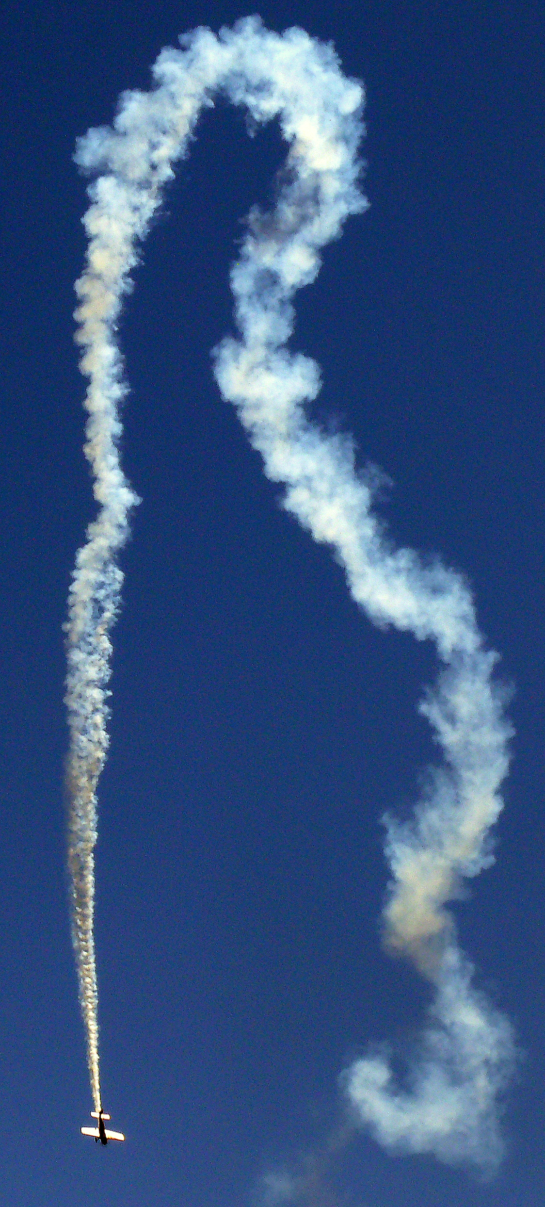 The smoke shows the shape she made in the air.